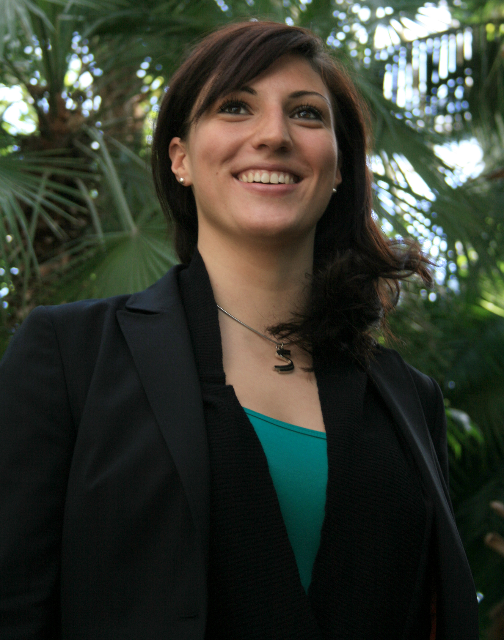 Austrian swimmer and 'Austrian sportswoman of the year 2002', Mirna Jukić, portrayed when planting "Mirna palm tree", a Livistona chinensis placed at the center of the palm house at Schönbrunn, Vienna, Austria. This 50 years old plant is the successor of 170 years old "Sisi" or "Sissi" palm tree, which had been planted at the very same spot but had to be cut down in February 2008 for having grown too tall.